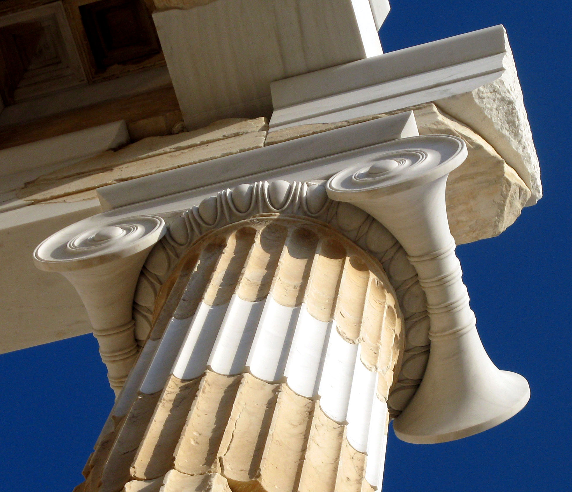 Restored Ionic column at the entrance to the Acropolis of Athens